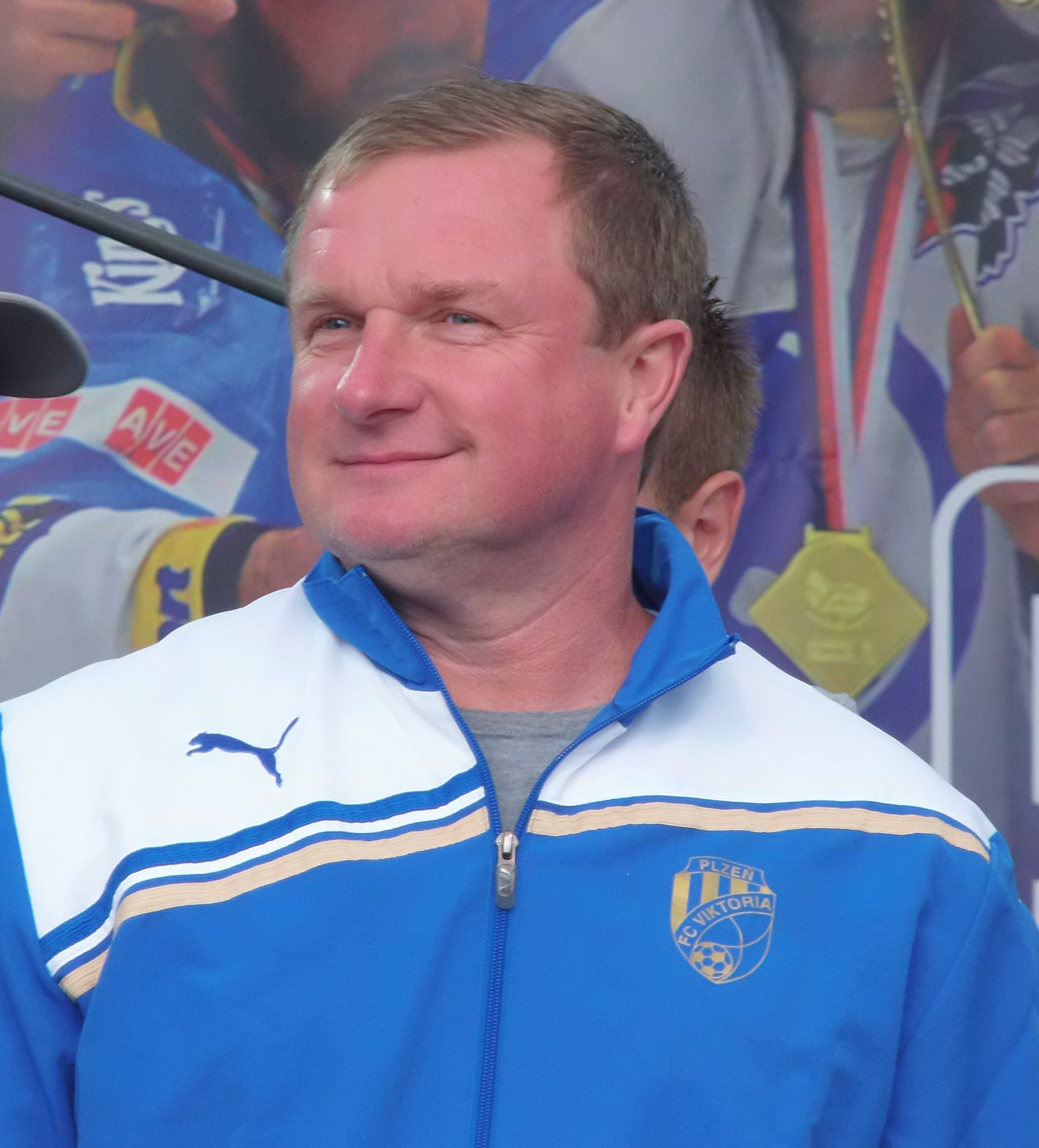 Pavel Vrba 2013-06-26 (Pavel Vrba 02.JPG, cropped)